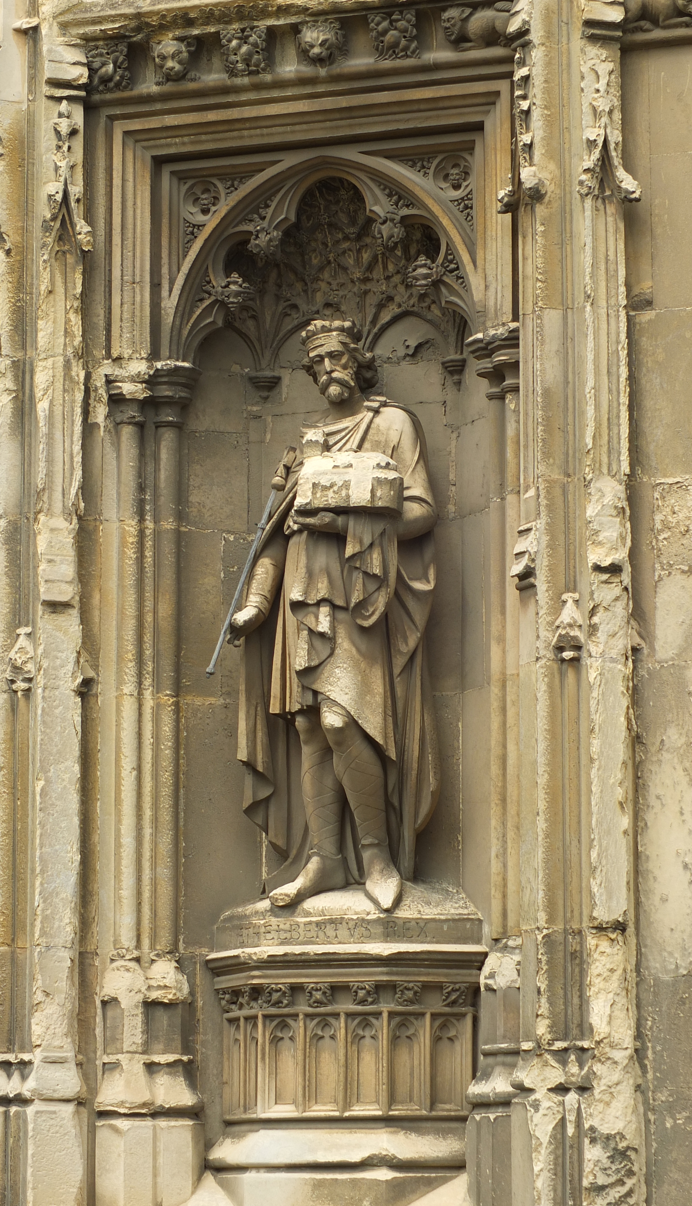 Canterbury Cathedral, statue of Æthelberht (also Ethelbert) (c. 560 - 616), King of Kent from c. 558 or 560 to 616 at the south west porch.